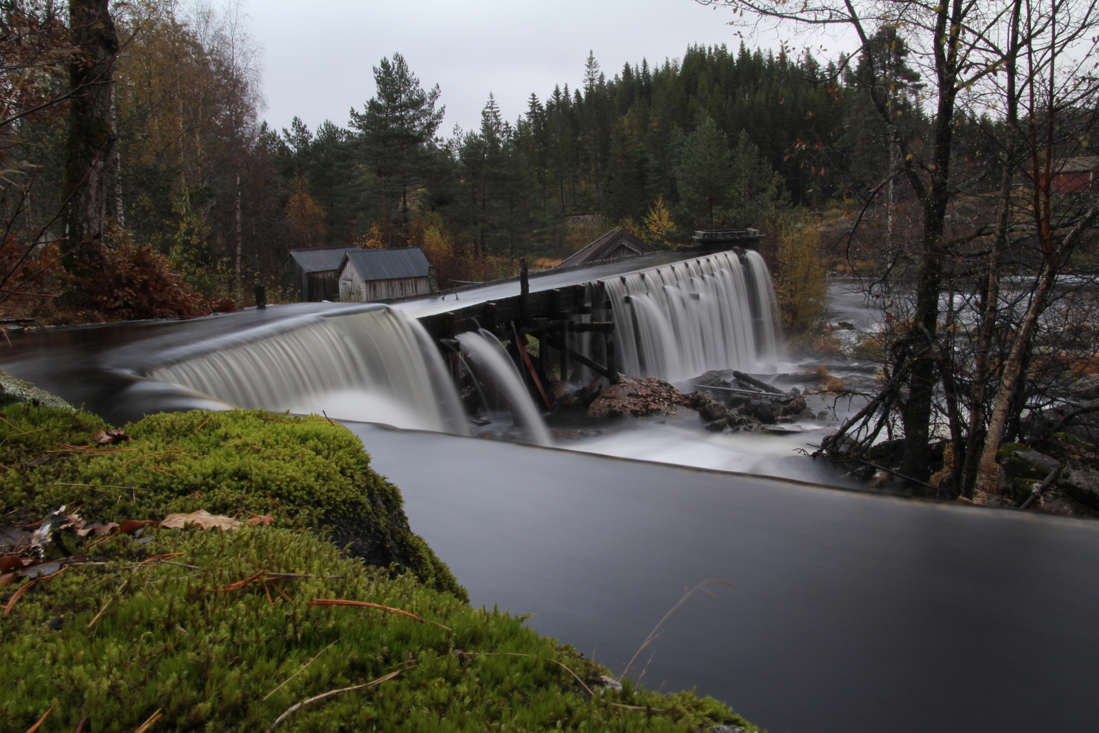 Saw mill at Bergstøl.